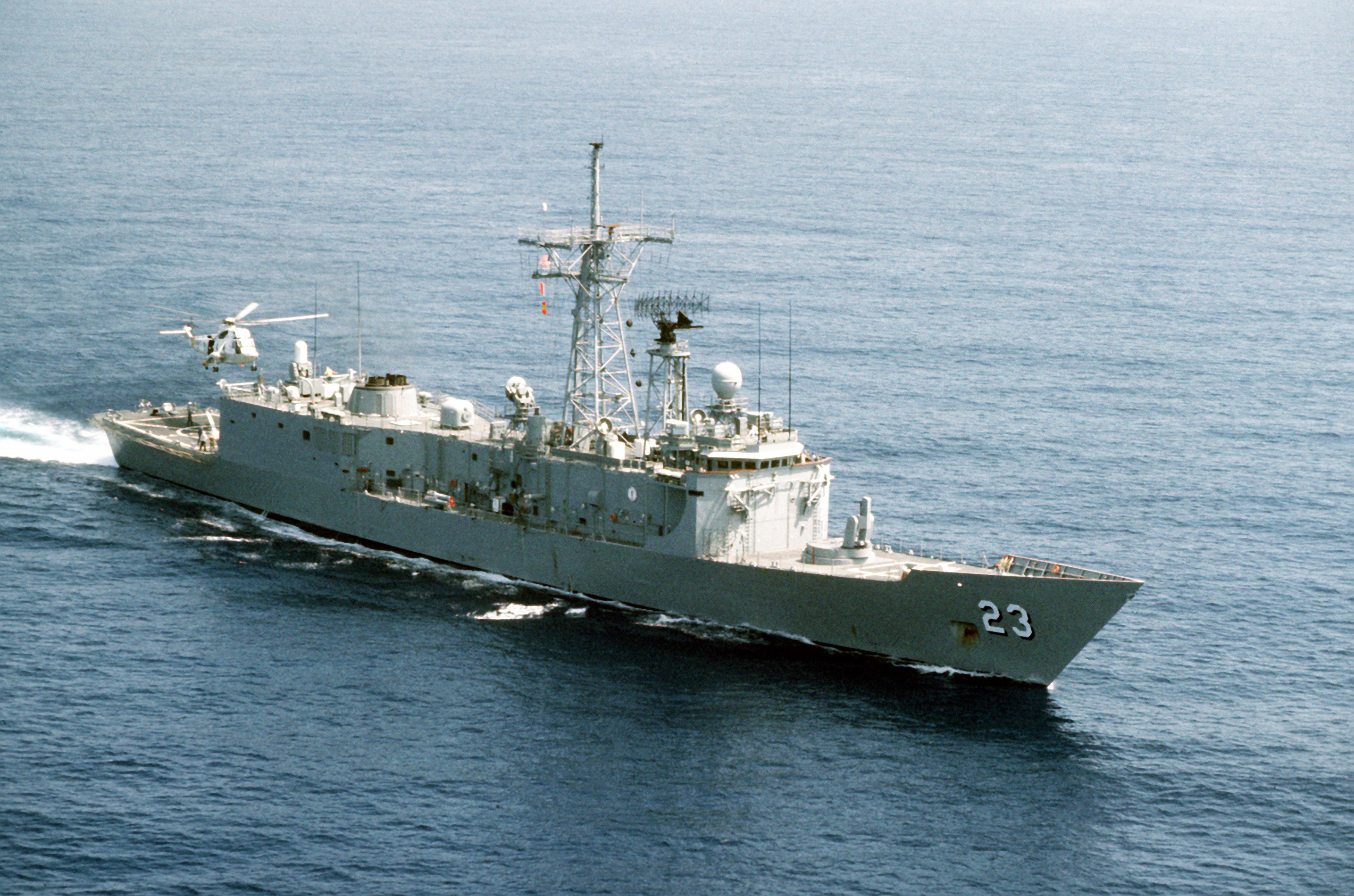 An elevated starboard bow view of the guided missile frigate USS Lewis B. Puller (FFG-23) underway.